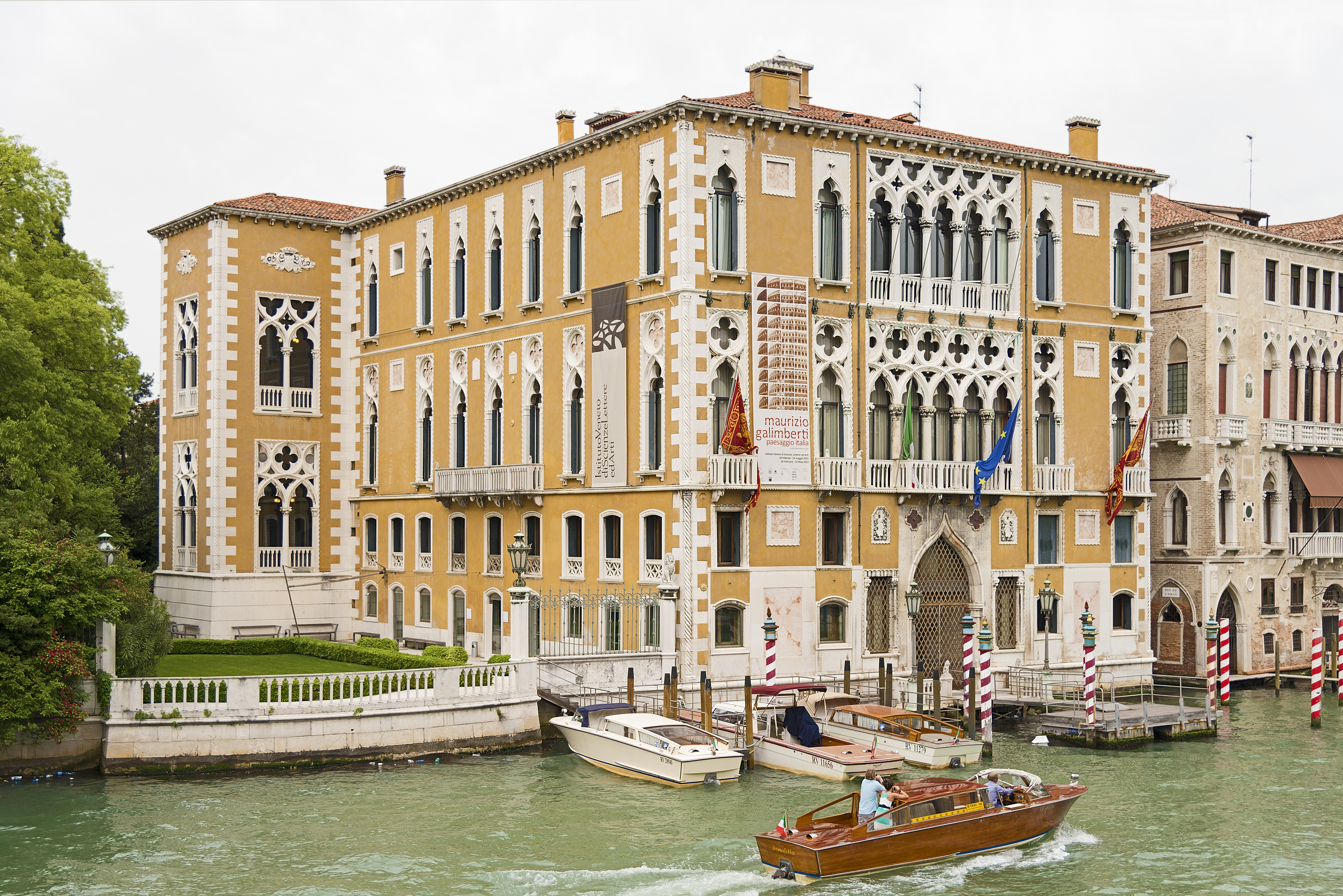 Palazzo Cavalli-Franchetti, Venice facade on Grand Canal